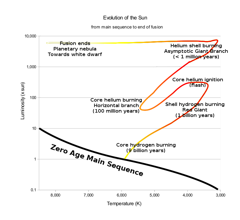 Shows the evolutionary phases of a 1 solar mass star from main sequence to the end of fusion